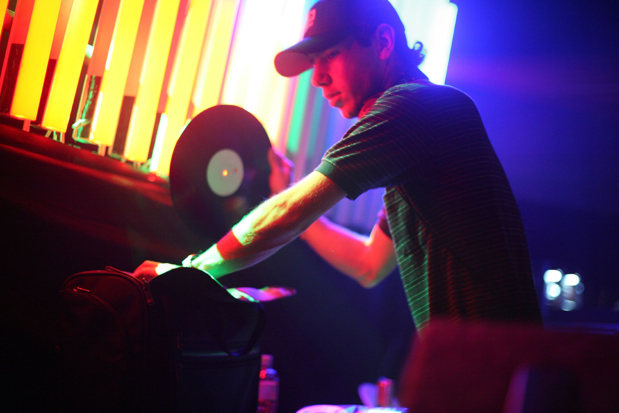 the headlining DJ, Tiga from Canada